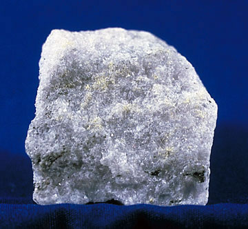 Barite